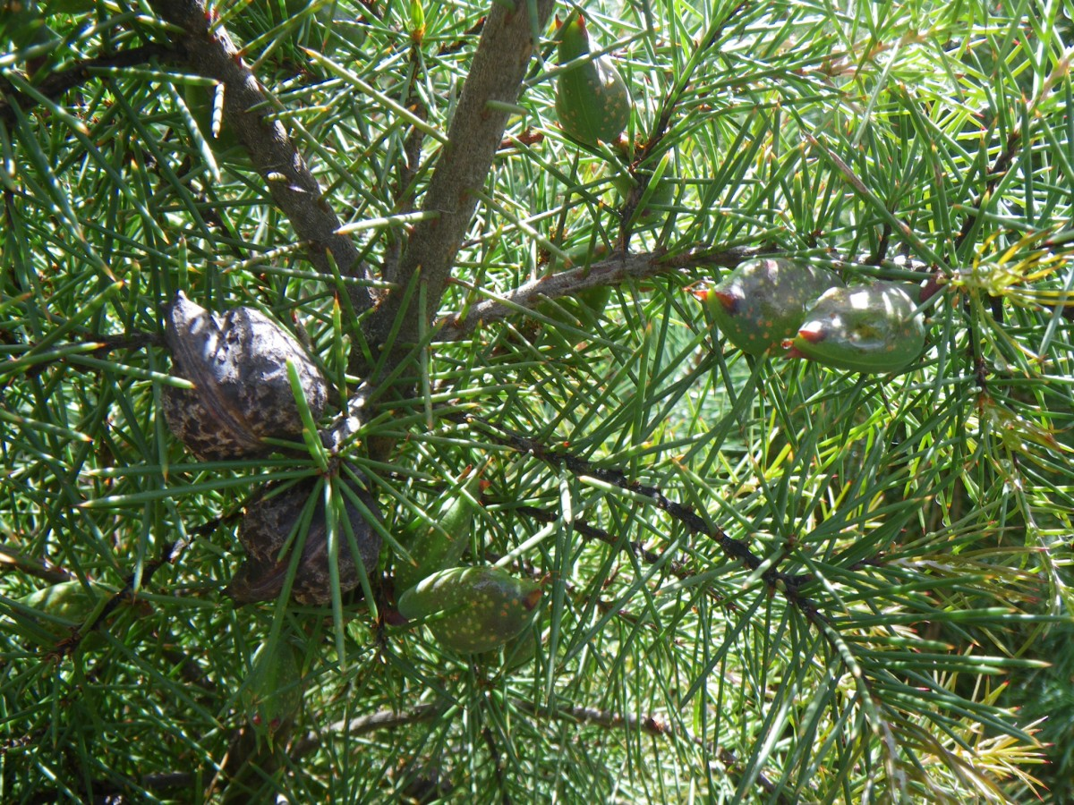 Hakea sericea young and ripe fruits